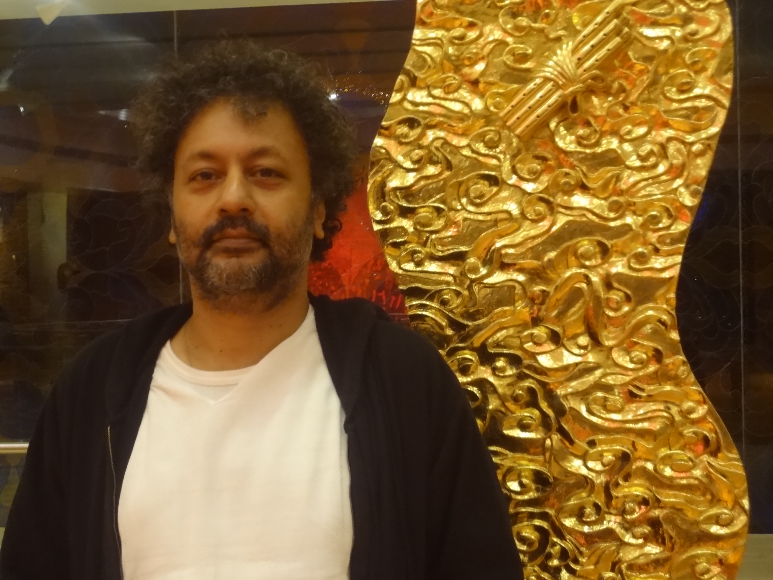 The flute tree installation allows people to blow into a flute sculpture and hear passages of flutes.